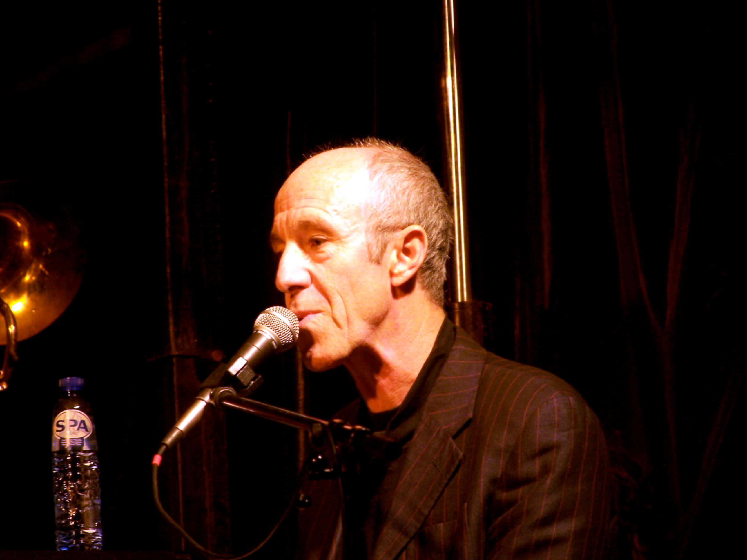 Raymond van het Groenewoud. Picture taken by myself summer of 2006 during a concert.